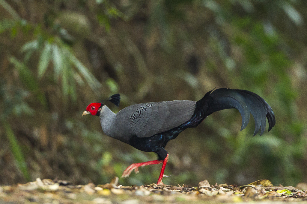 Siamese Fireback - Khao Yai NP - Thailand_S4E5649